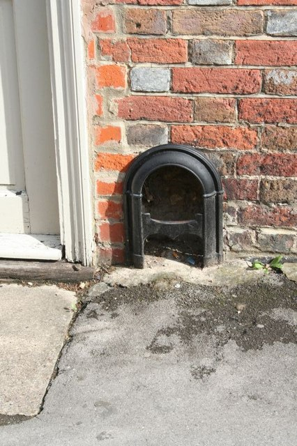 All mod cons I would think this boot scraper in the wall was quite the thing when the cottage was built. Wallingford, Oxfordshire, England.